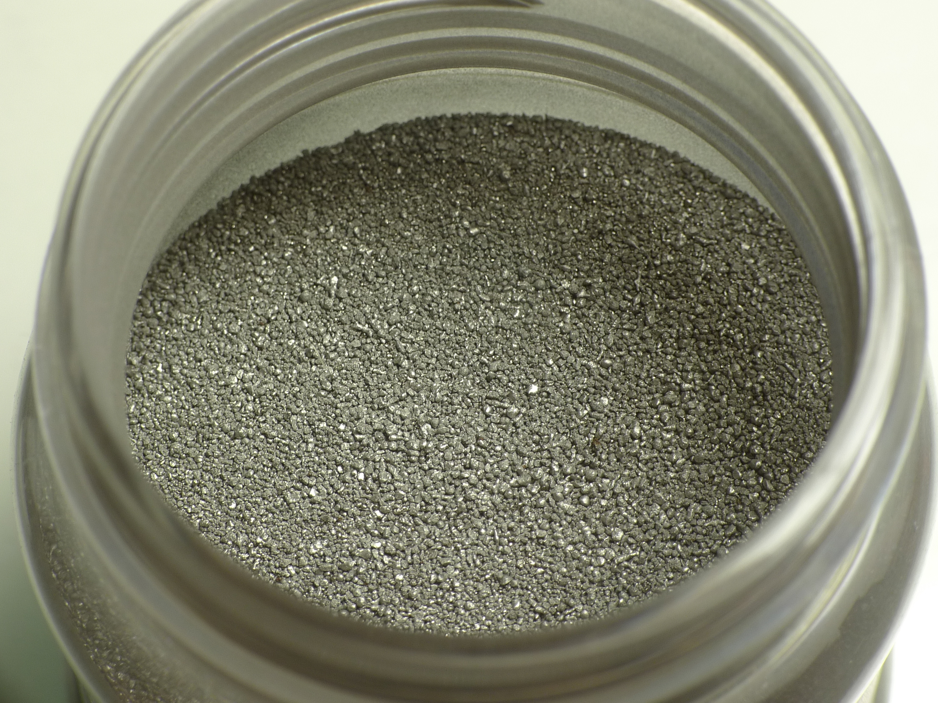 Fine iron powder. The jar's diameter is approx. 4 cm.